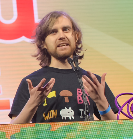 Game Developer Arvi Teikari winning one of the two Independent Game Festival awards at the Independent Games Festival 2018 , part of the Game Developers Conference 2018 Cropped from Flickr version as while it is it published there freely, there are parts of the image that appear to be copyright art that is not de minimus, so only the crop is used.